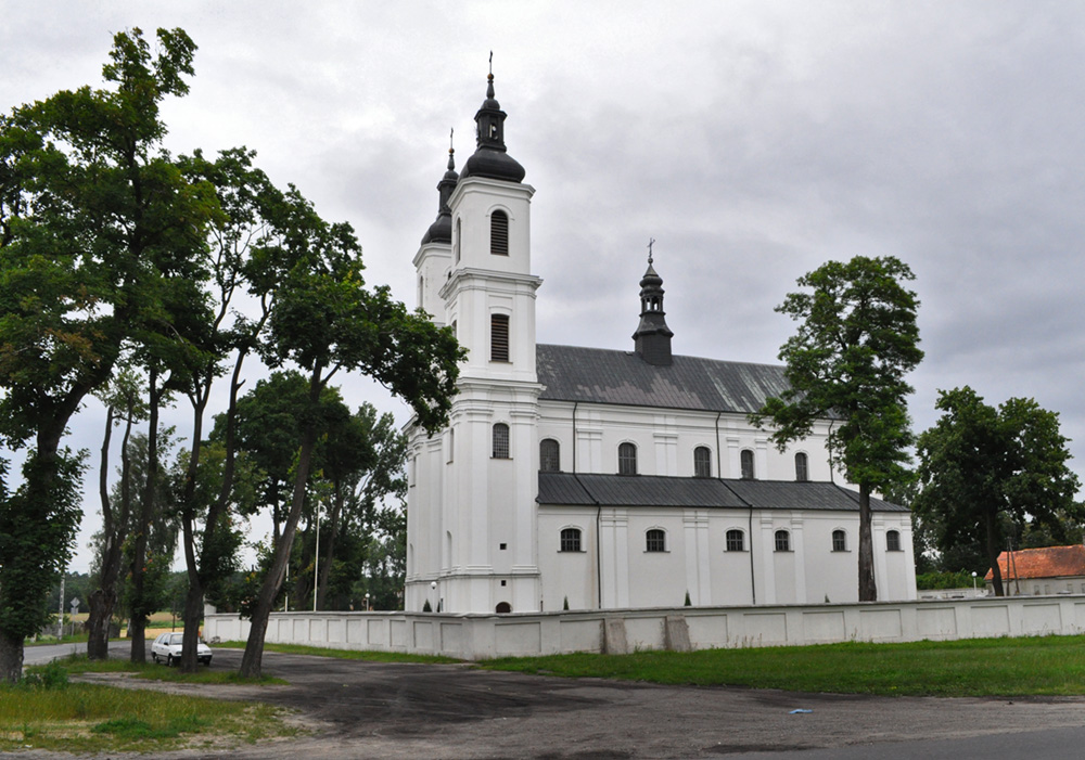 Witów - village near Piotrków Trybunalski and Sulejów in Poland